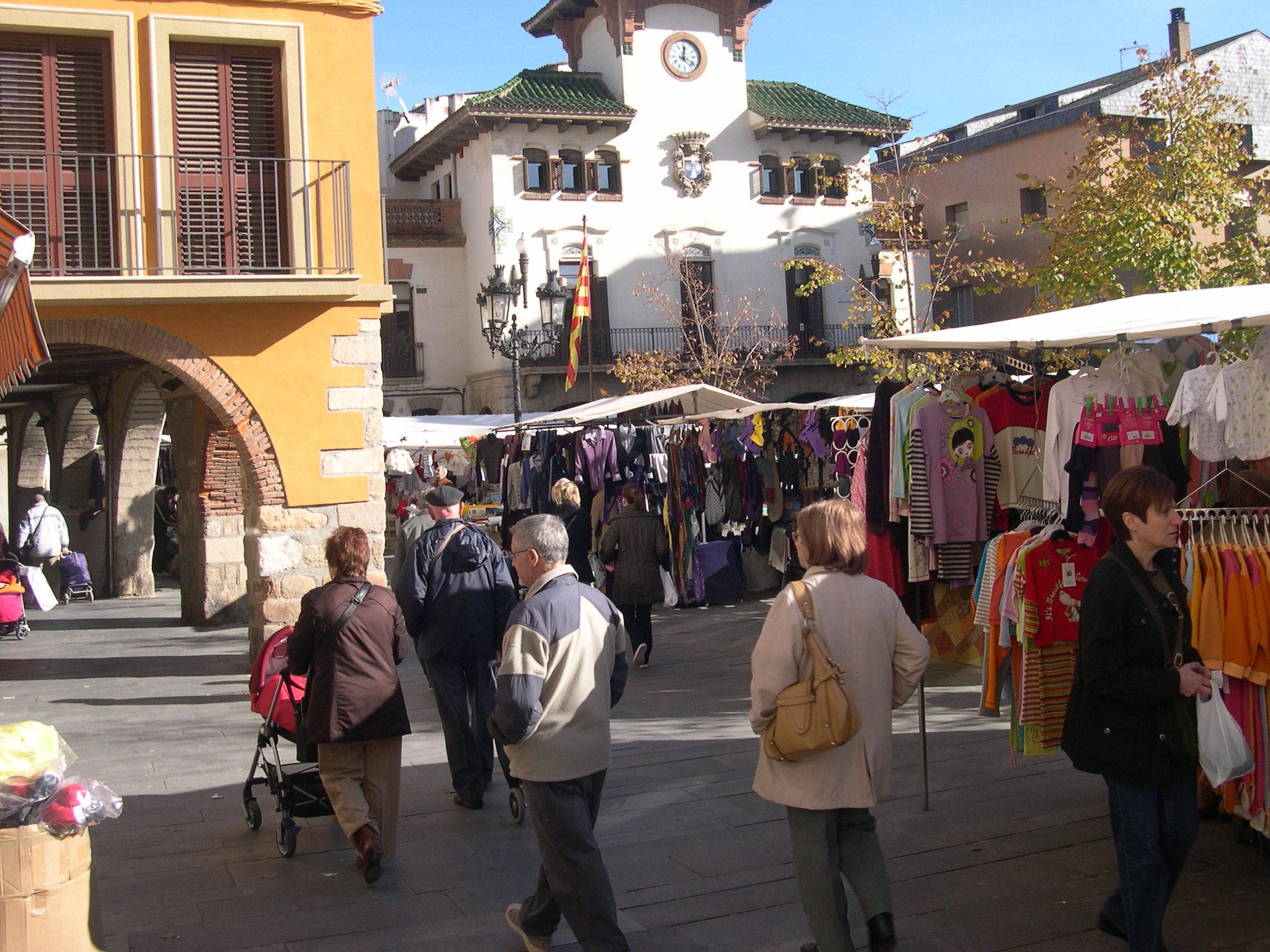 Mercat setmanal de Sant Celoni